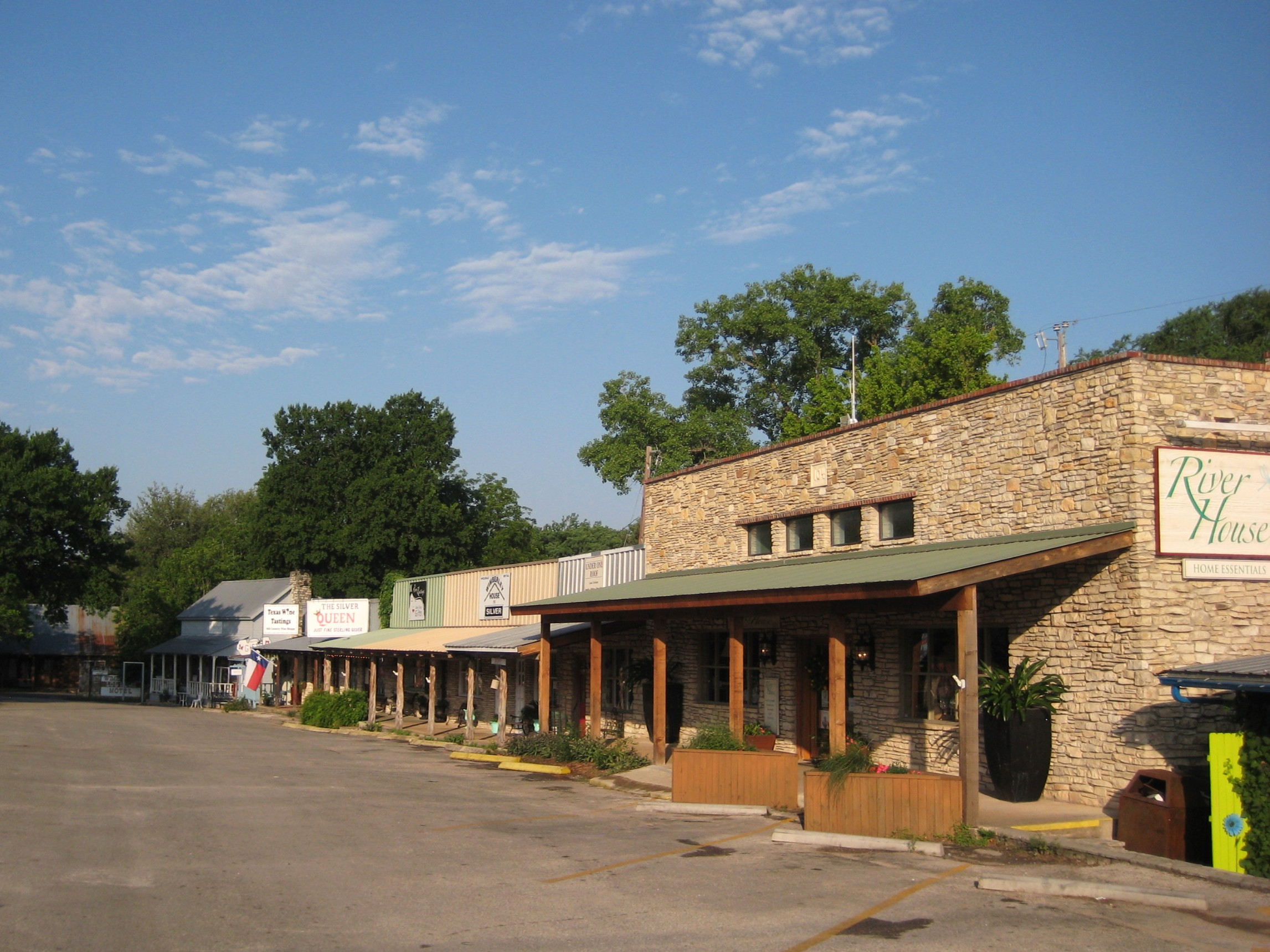 Shops at Wimberley, Texas.